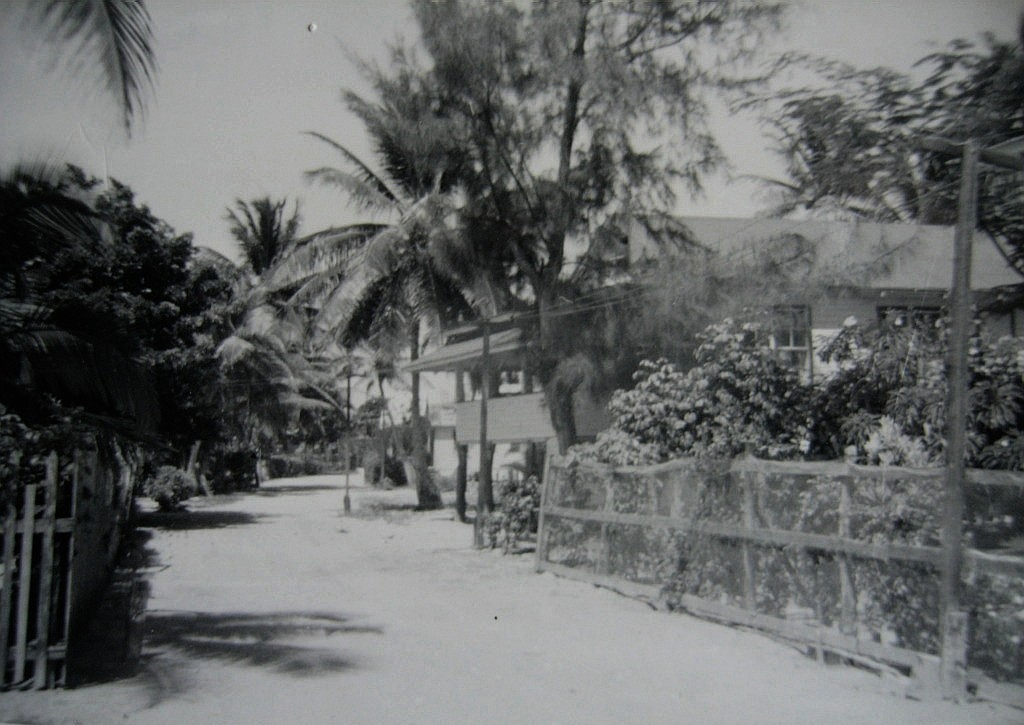 Peaceful French Harbour, Roatán (Bay Islands), 1968.